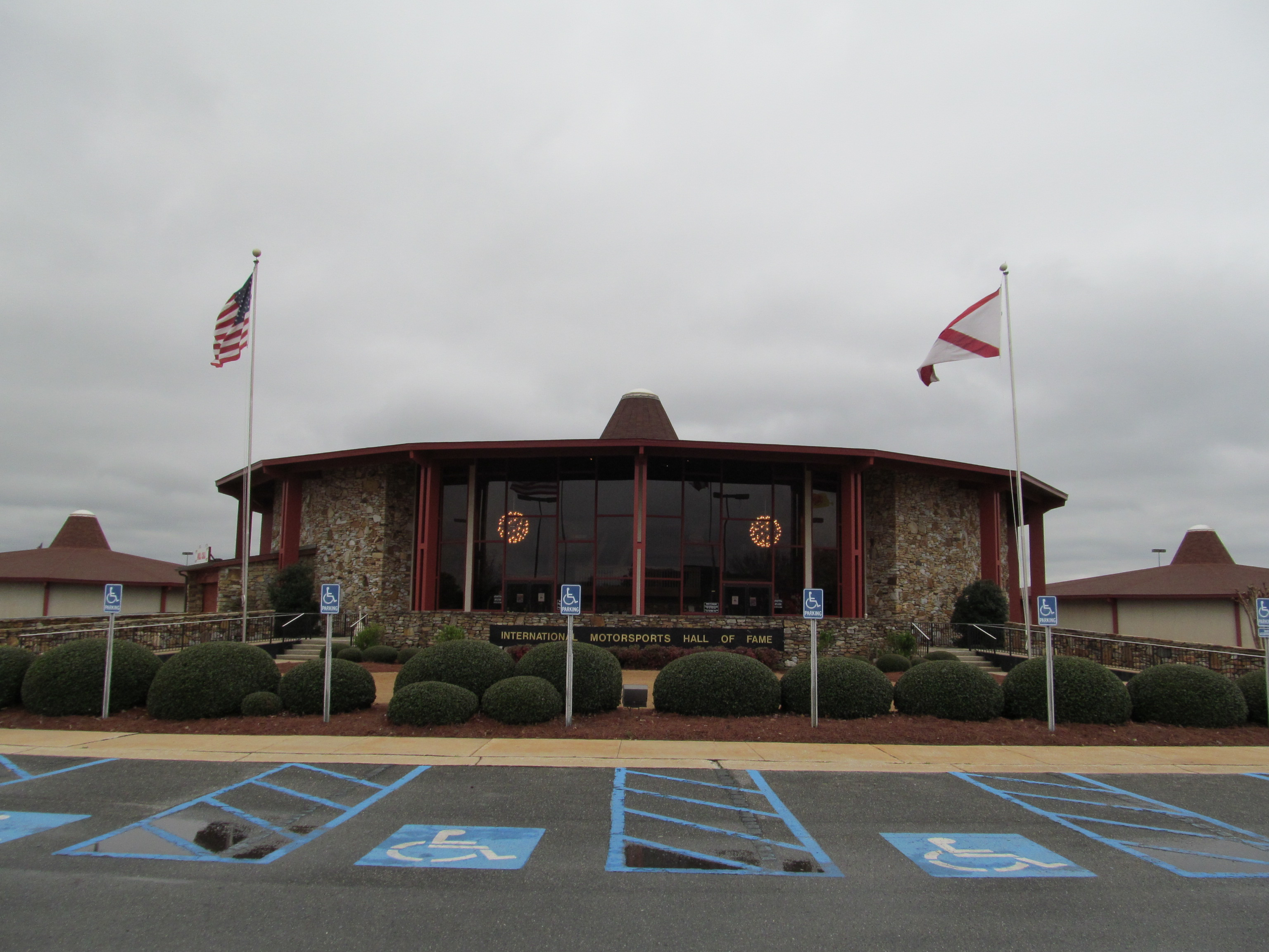 International Motorsports Hall of Fame, Talladega Alabama